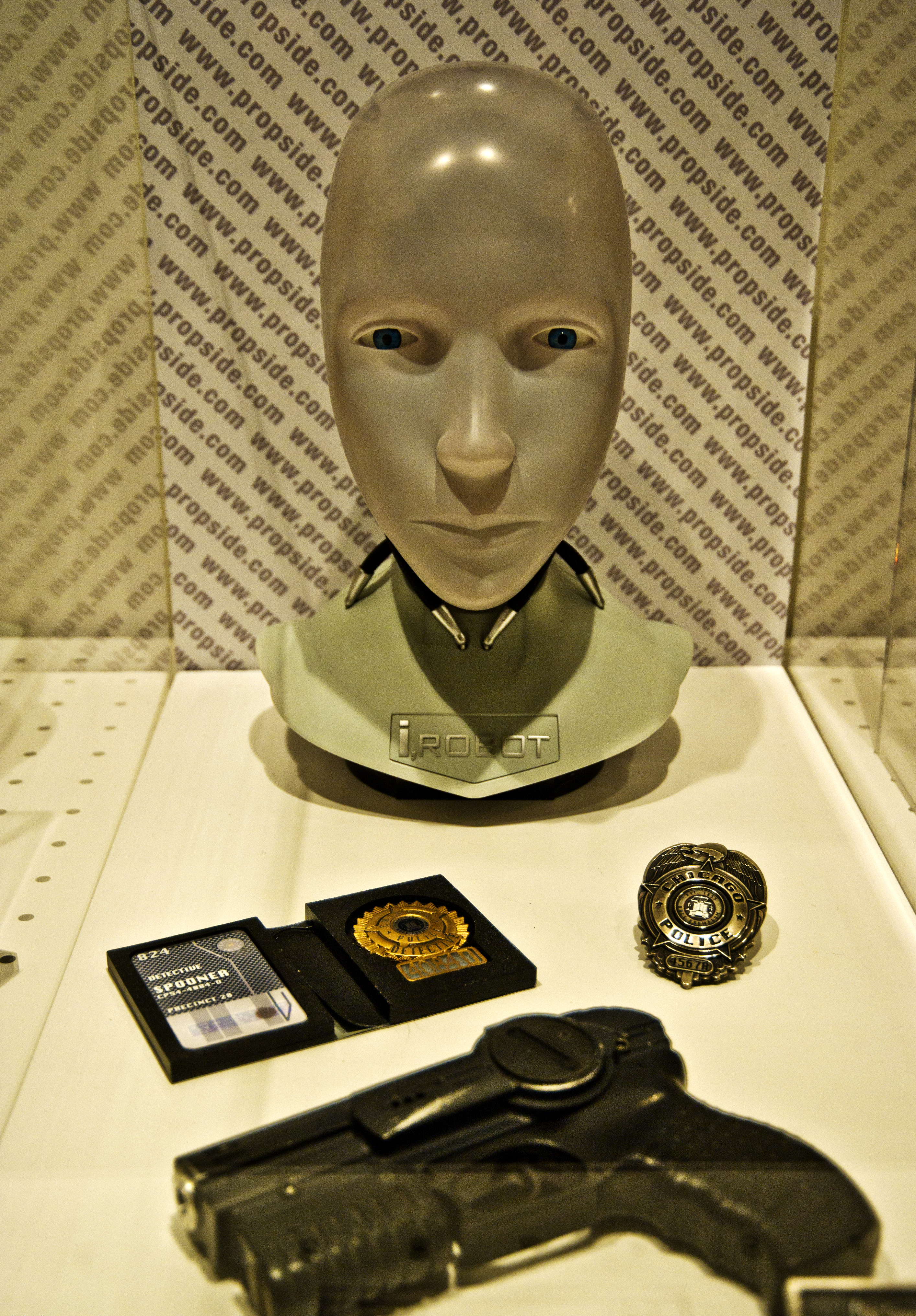 Props from the 2004 film I, Robot displayed at ExpoSYFY, San Sebastián, Spain. On the background: bust replica of the robot NS-5 "Sonny", replica of the documents of the character Del Spooner (played by Will Smith). On the foreground: original gun of the character Del Spooner (played by Will Smith) and original Chicago Police badge.